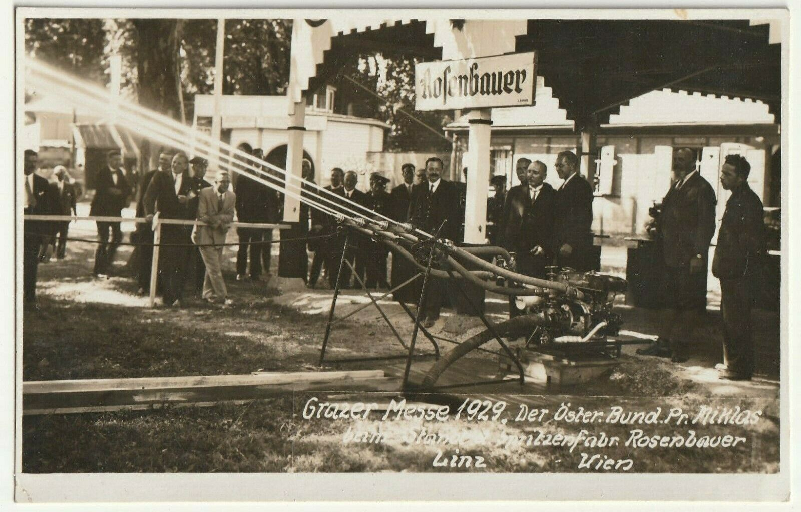 Rosenbauer Portable fire pumps 1929